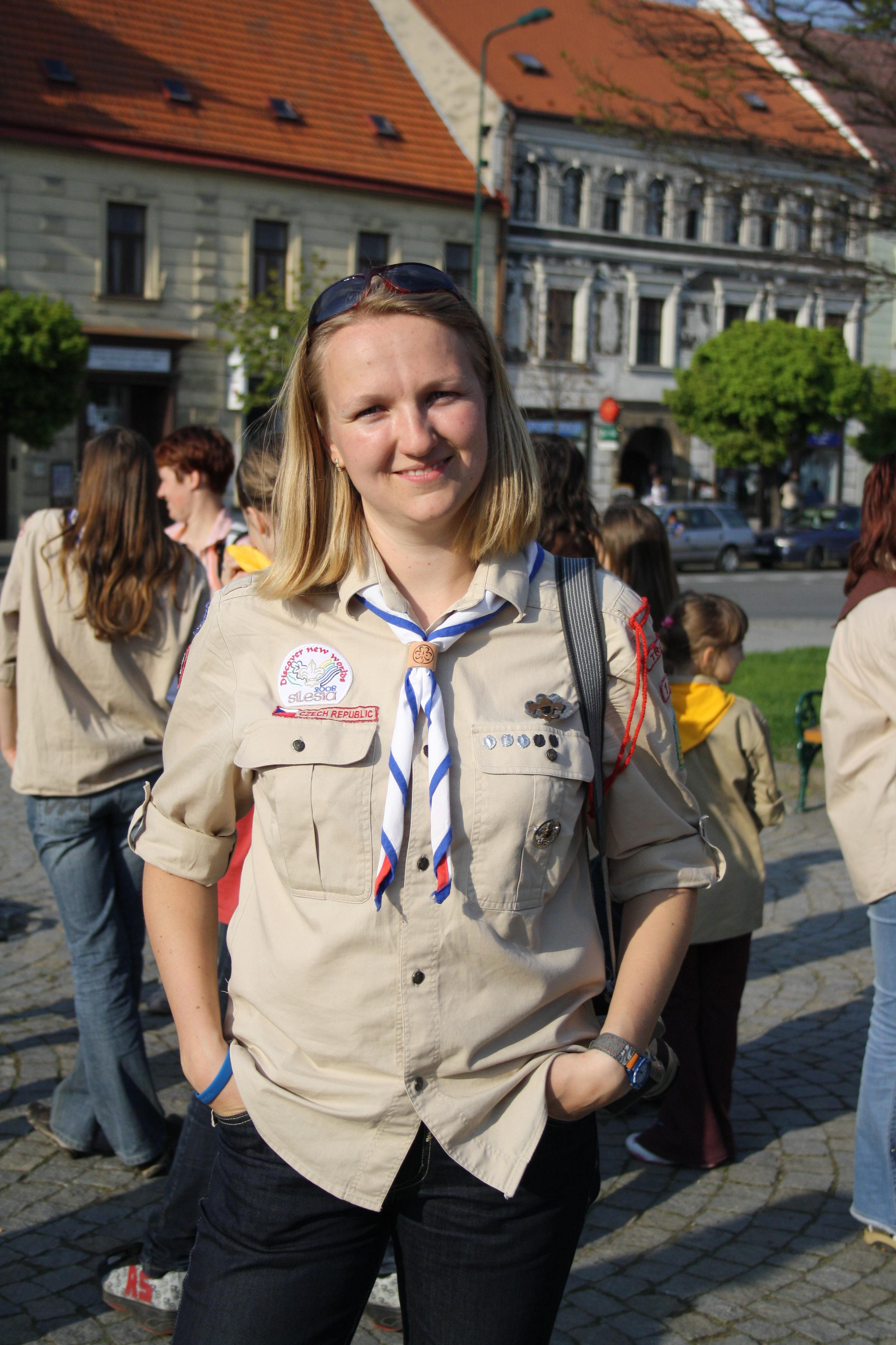 Girls scout leader in uniform in Třebíč, Czech Republic.